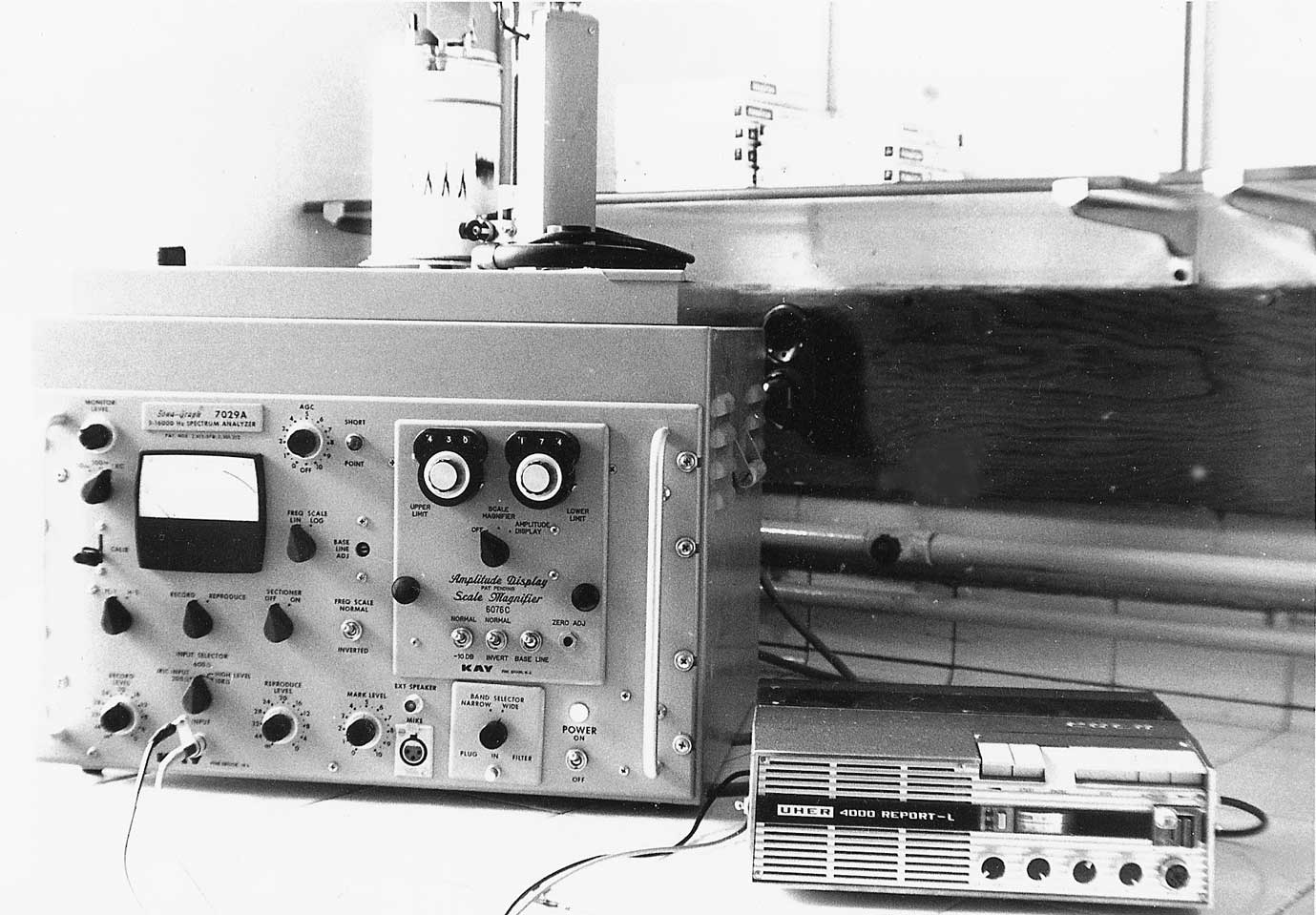 Sonograph "Kay Elemetrics Spectrum Analyser" used between 1970 and (about) 1990 in the service of Ethology at the University of Liège (Belgium), for the analysis of birdsong (a sonogram, with a few strokes of notes is visible on the drum over the appliance). Right, 4000- Report L tape UHER for recording songs.